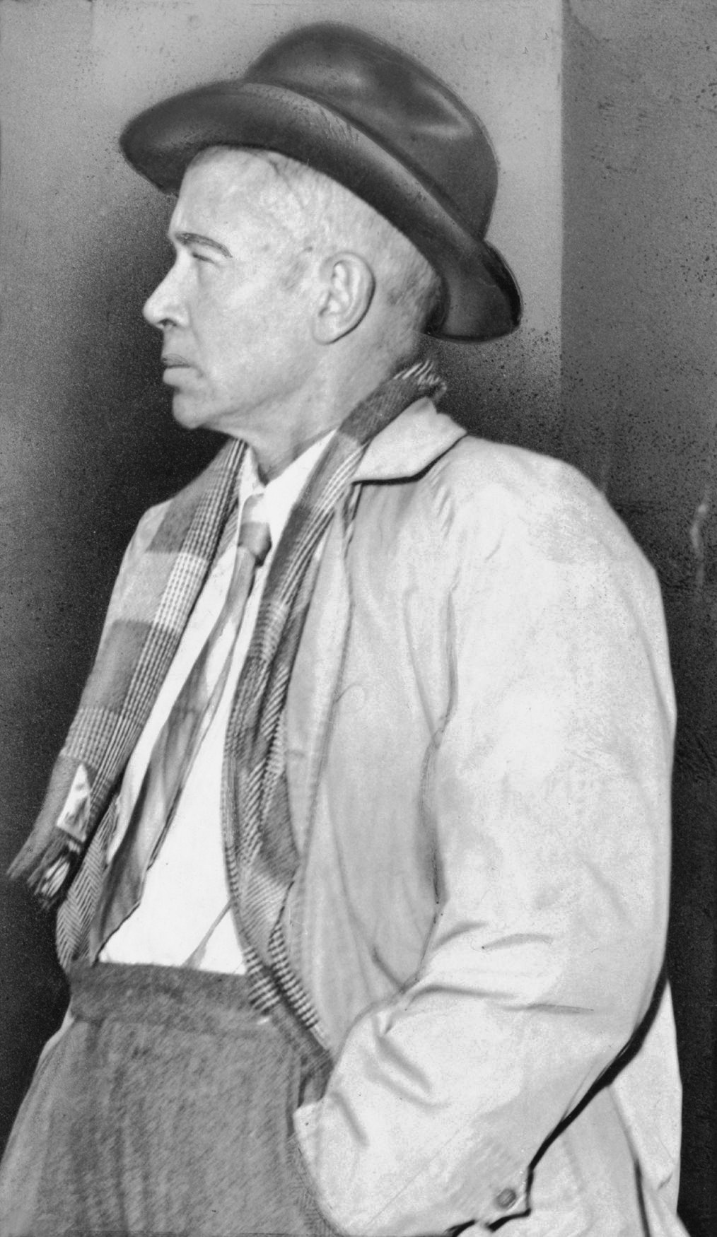 E.E. Cummings, full-length portrait, facing left, wearing hat and coat / World-Telegram photo by Walter Albertin.